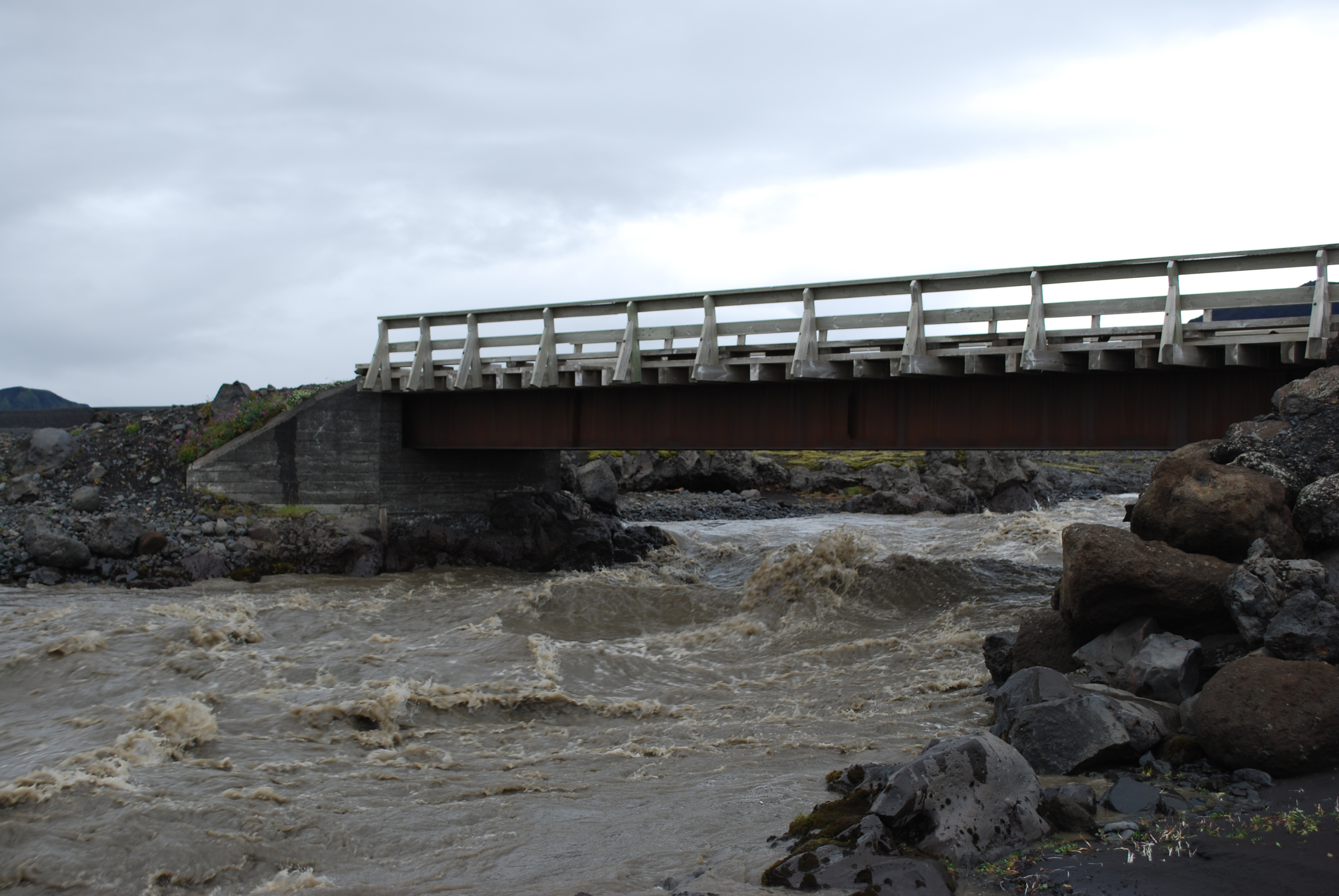 Innri-Emstruá River in Emstrus area, imaged during Laugavegur, Iceland - Google Maps - Google Earth